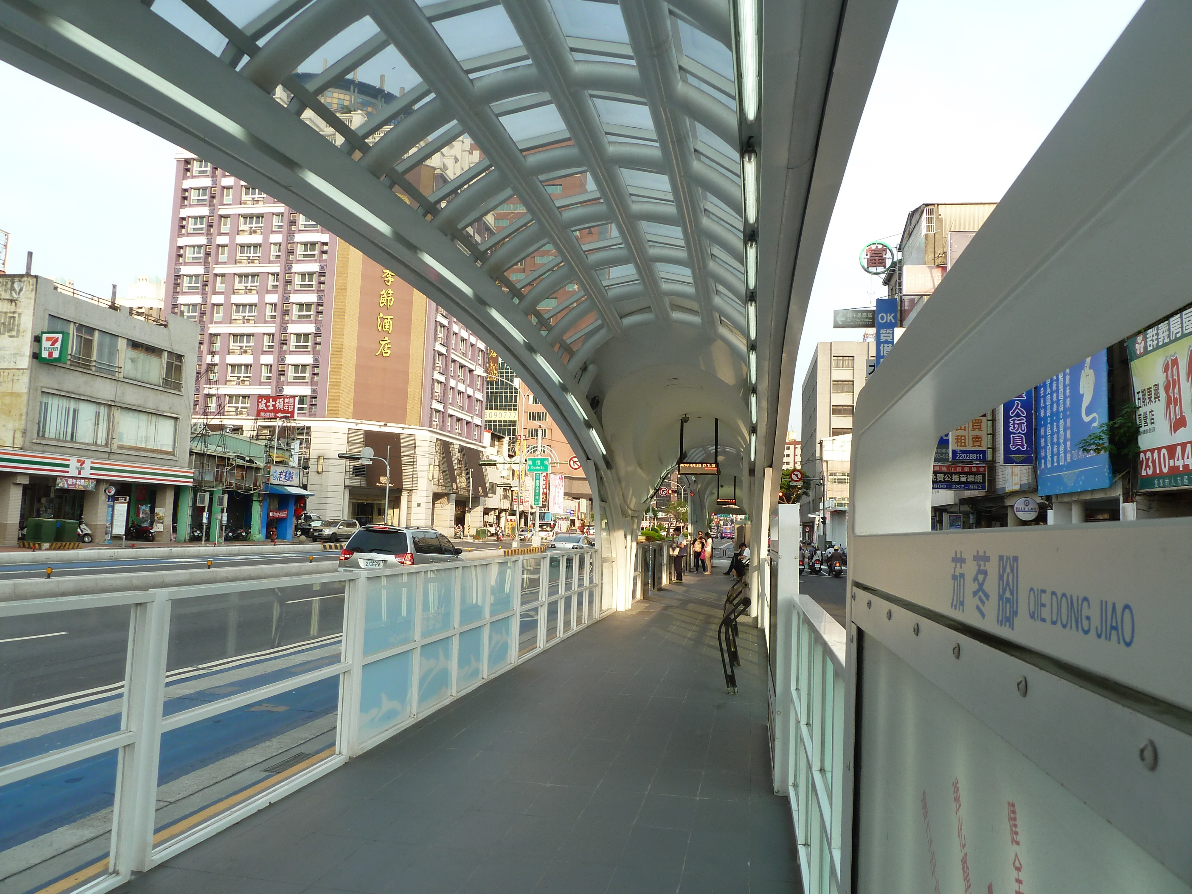 Taichung BRT Qie Dong Jiao Station Platform No.2